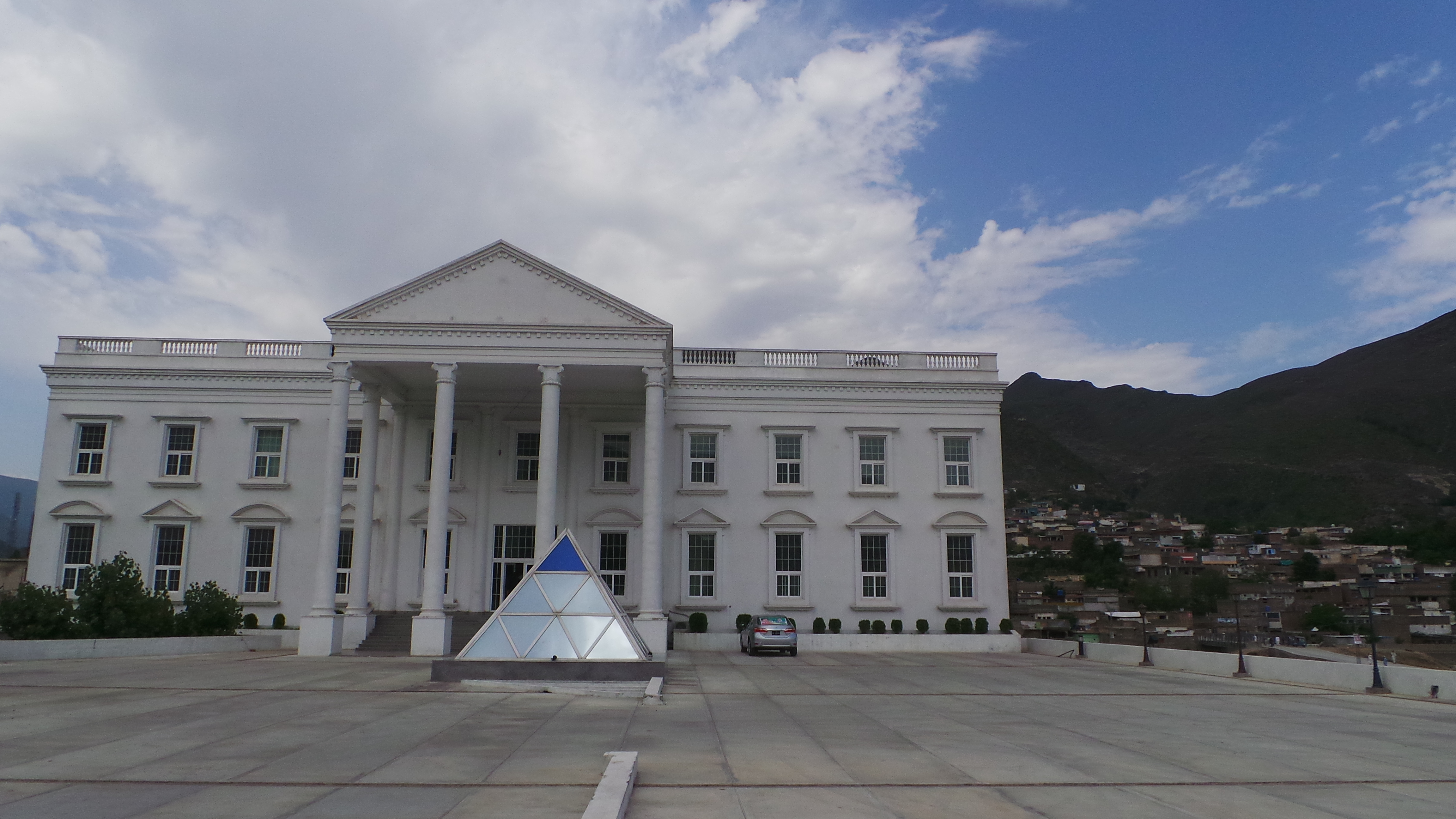 Kings International Hospital, Saidu sharif